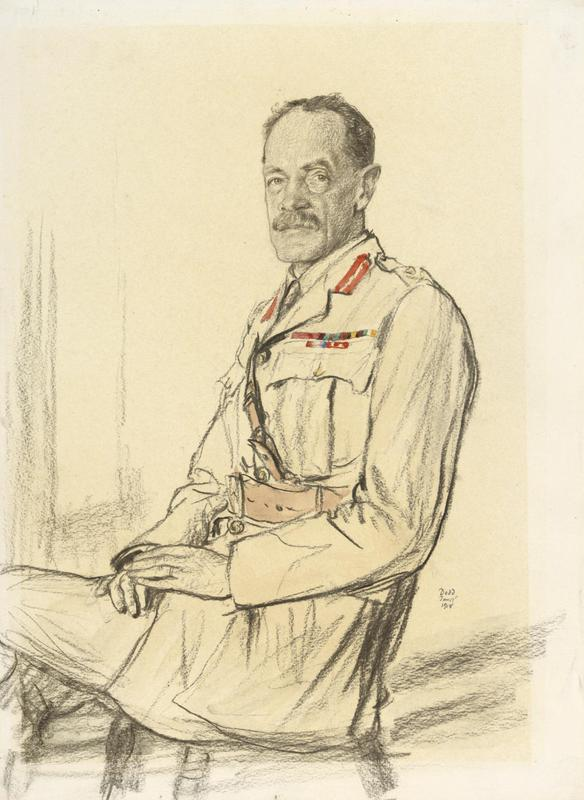 Major-general Sir John Edward Capper, Kcb image: a three quarter lengh portrait of Major-General Sir John Capper in uniform, seated with his legs crossed, his body in left profile and his head turned forward.